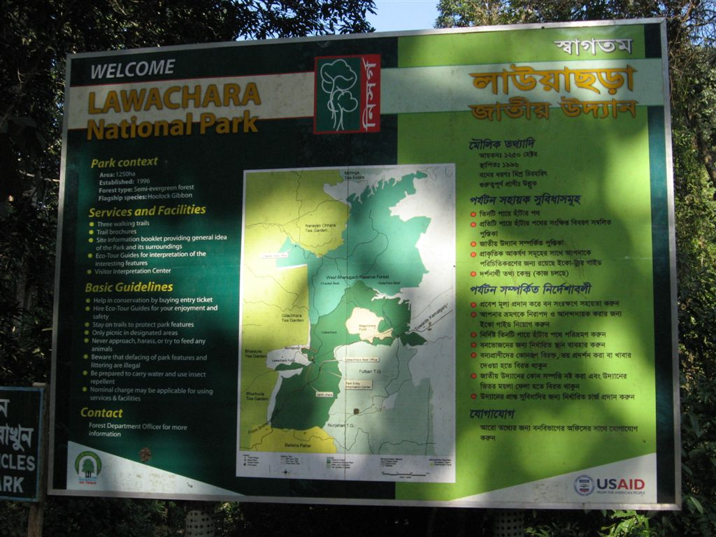 Lawachara National Park, Srimongol, Sylhet, Bangladesh.